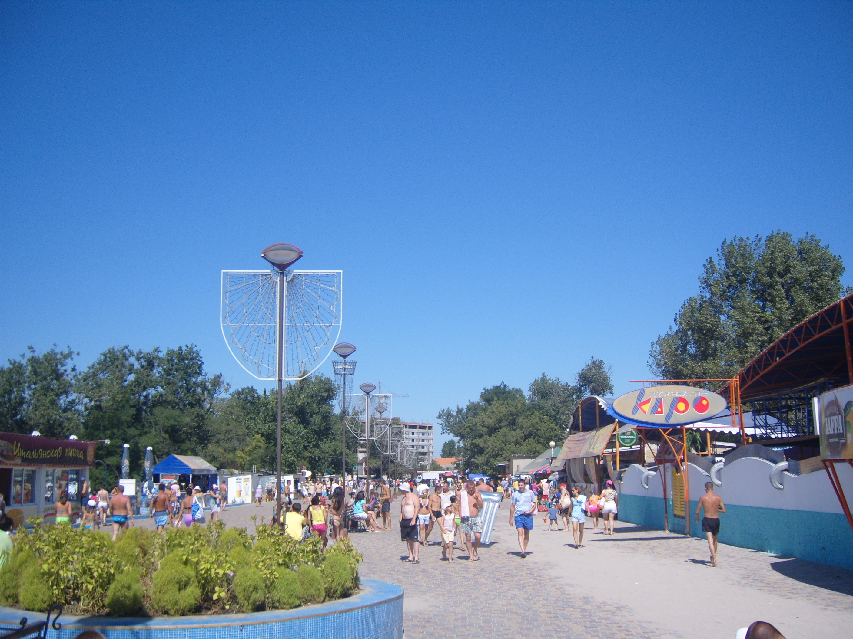 Central park in Zatoka, Odesskaya district, Ukraine